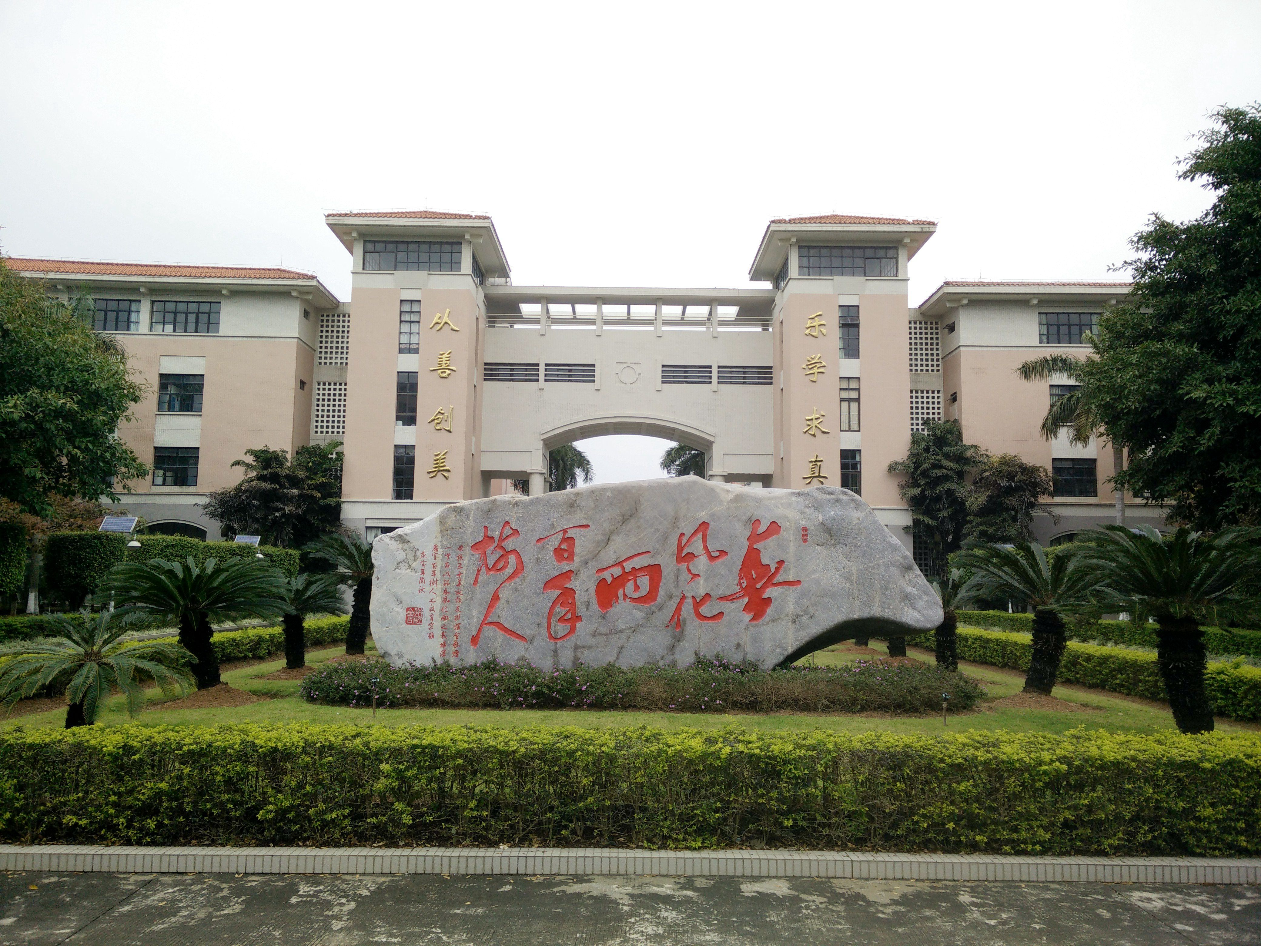 The metal lettering means "Enjoy learning, seek truth, excel at communication, bold in blazing new trails".